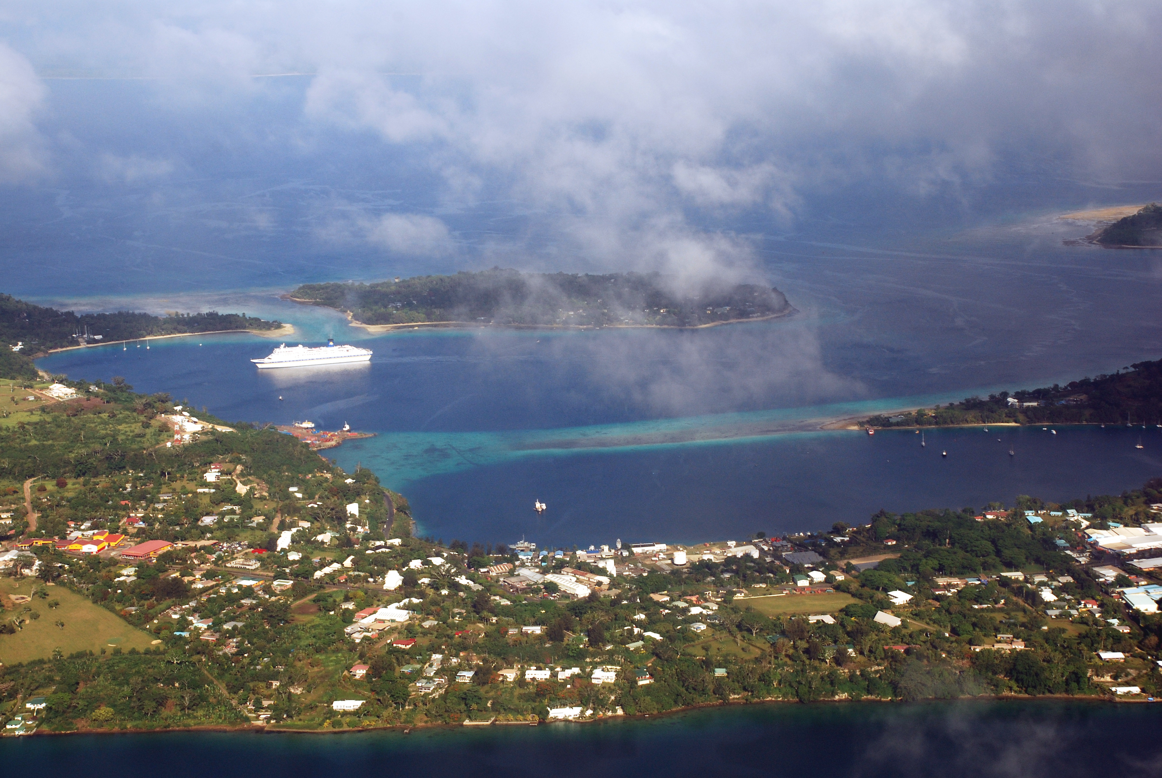 En route Port Vila to Auckland